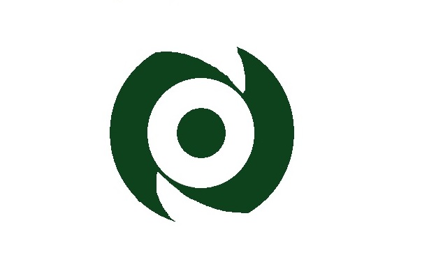 Flag of Naraha Fukushima